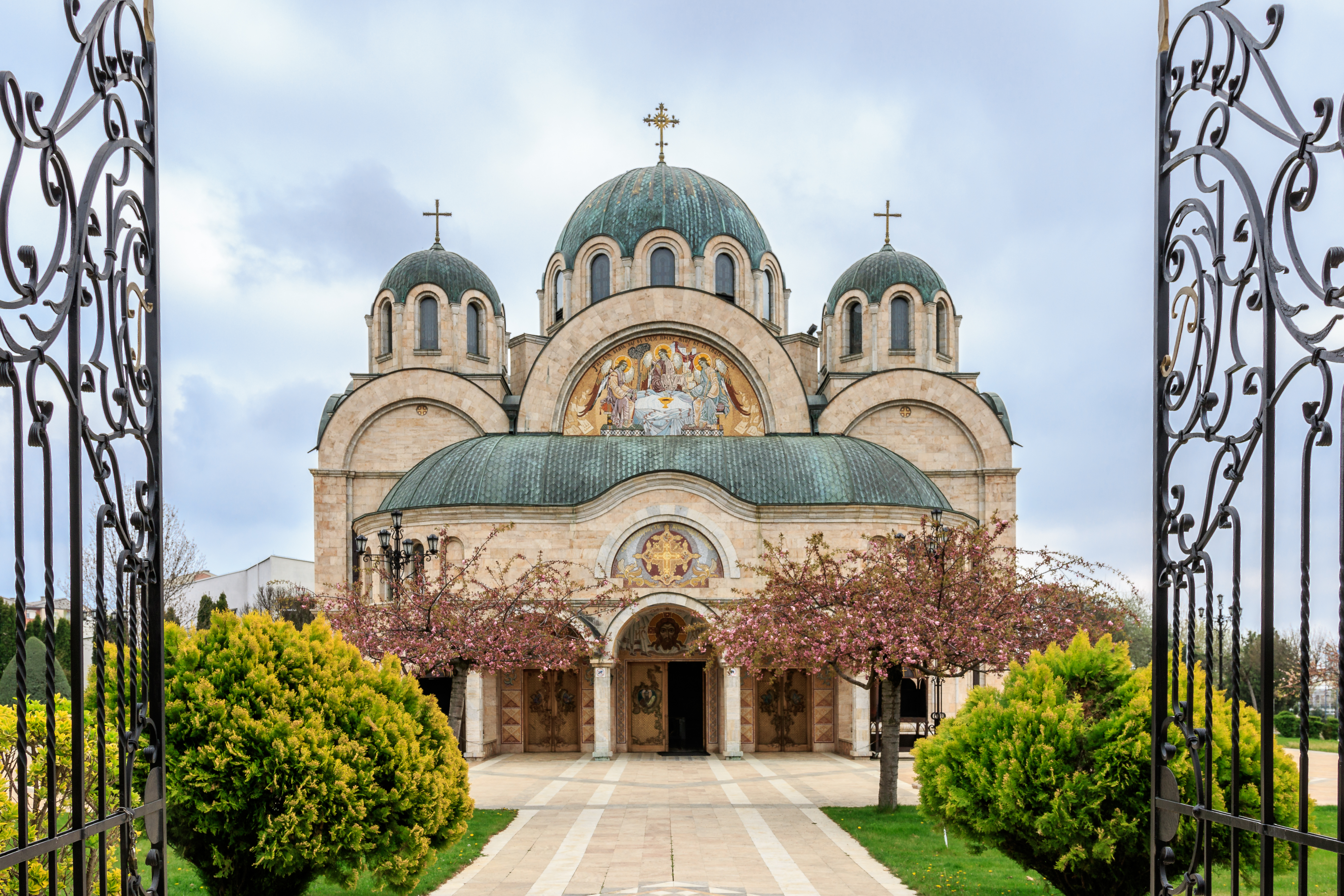 View of the Holy Trinity Church in Radoviš